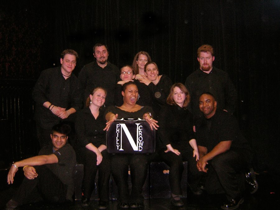 The N Crowd Cast April 2006 Top Row: Brandon Libby, Mike Connor, Natalie Sandone, Valerie Dupont, Jana N., B.J. Ellis Bottom Row: Akshay Sateesh, Jessica Snow, Kennedy Allen, Kristen Schier, Ray Reese